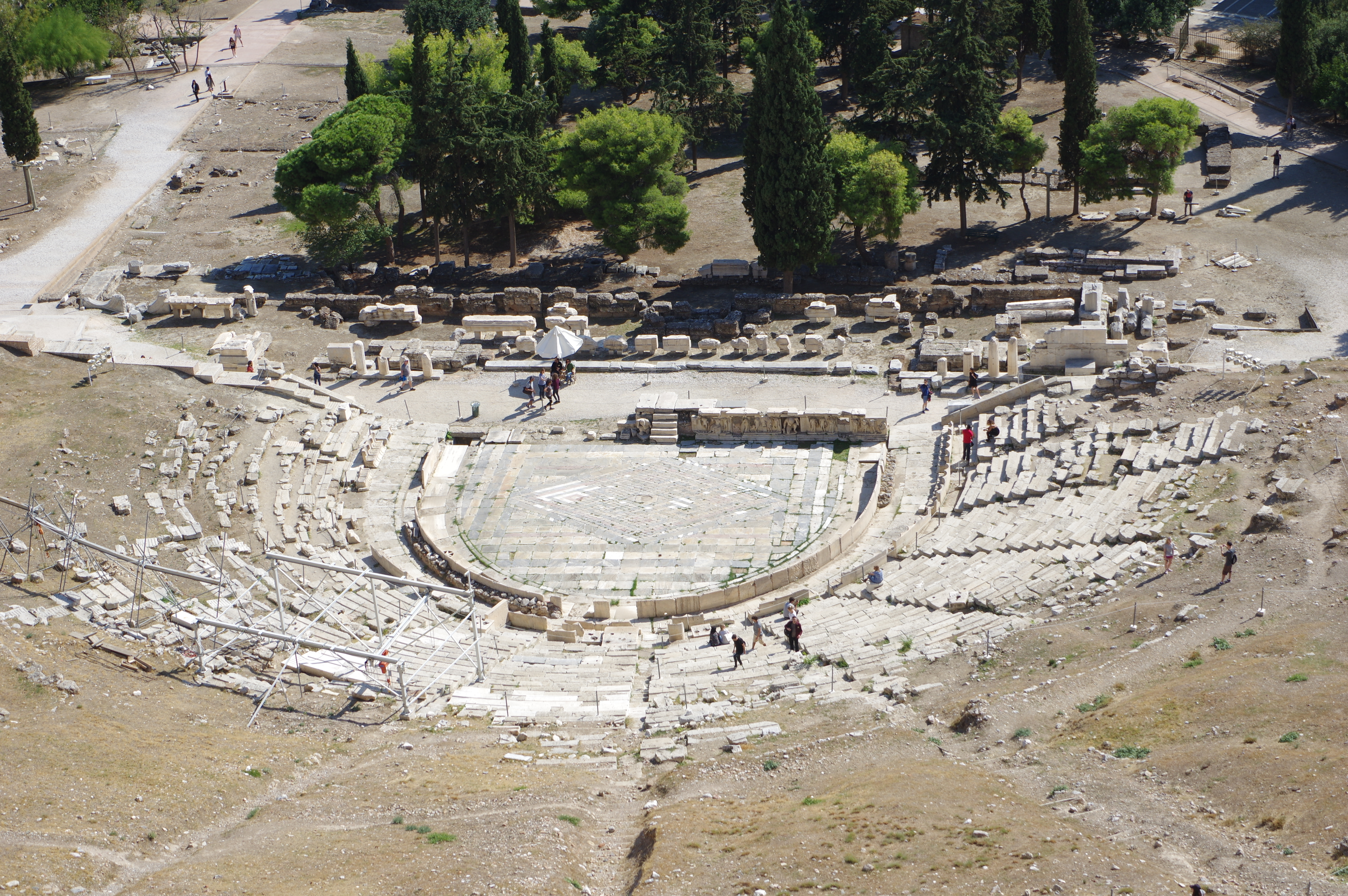 Greece, Athen, Theatre of Dionysus